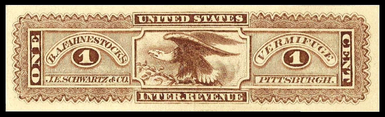 Image of Private stock revenue 1c 1864 issue